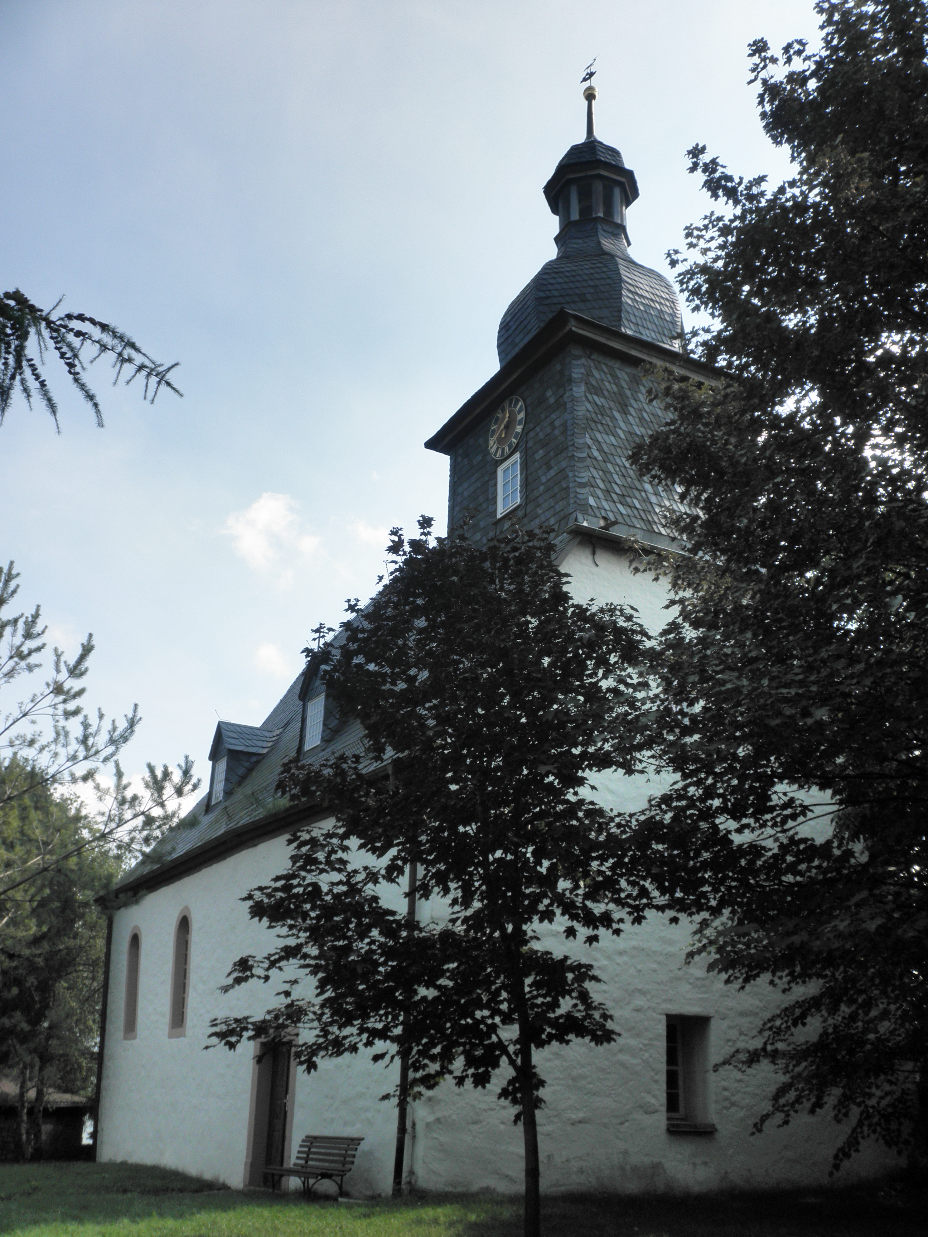 Church in Ballstedt in Thuringia